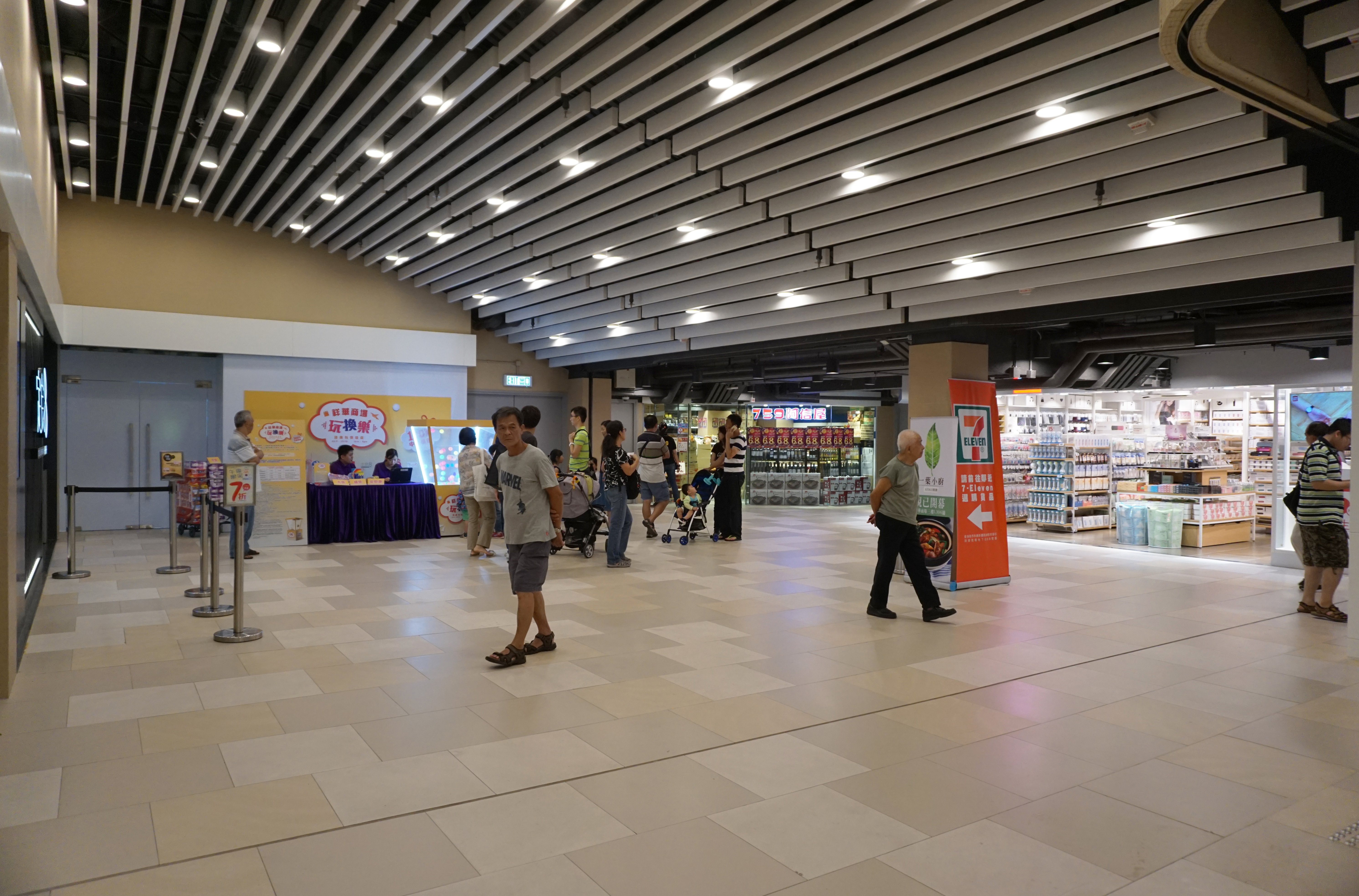 Cheung Wah Estate in Fanling, Hong Kong.